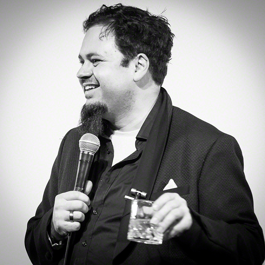 Dag Sørås performing at the Crap Comedy Festival in January 2016. The festival takes place at Parkteateret in Oslo.